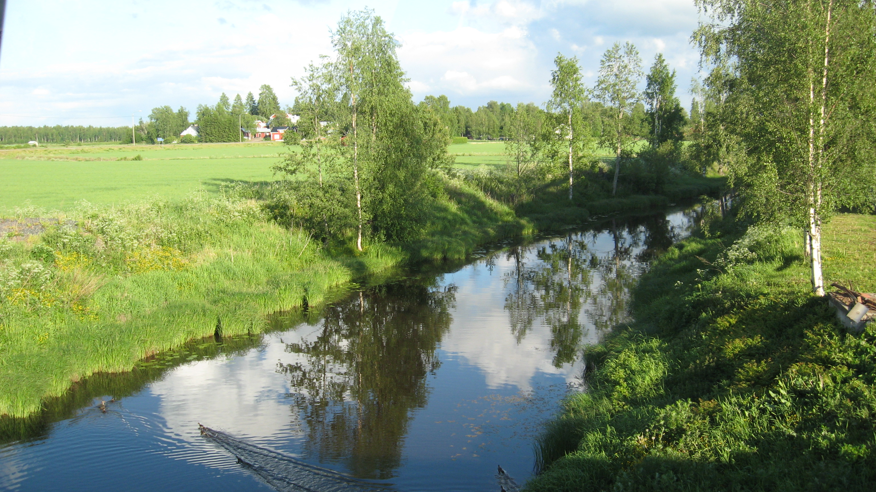 Laihianjoki river in Laihia, Finland.